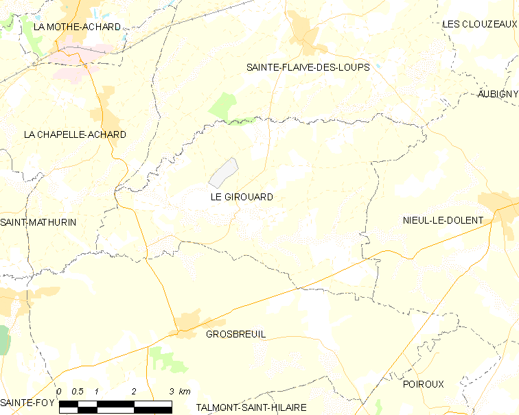 Map of French municipality Le Girouard